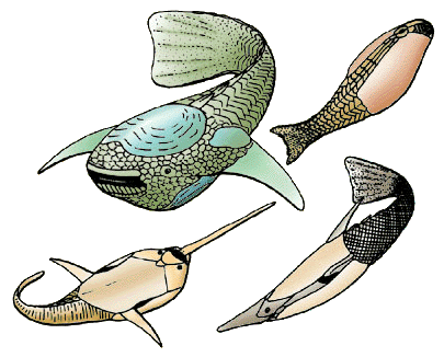 Heterostracans are the most diverse group of pteraspidomorphs and lived during the Silurian and Devonian periods. Among the most primitive heterostracans are tolypelepids (top right). Most heterostracans are pteraspidiforms, such as the pteraspidids (bottom right), protopteraspidids (bottom left) and the huge psammosteids (top left), which are the youngest known members of the group.